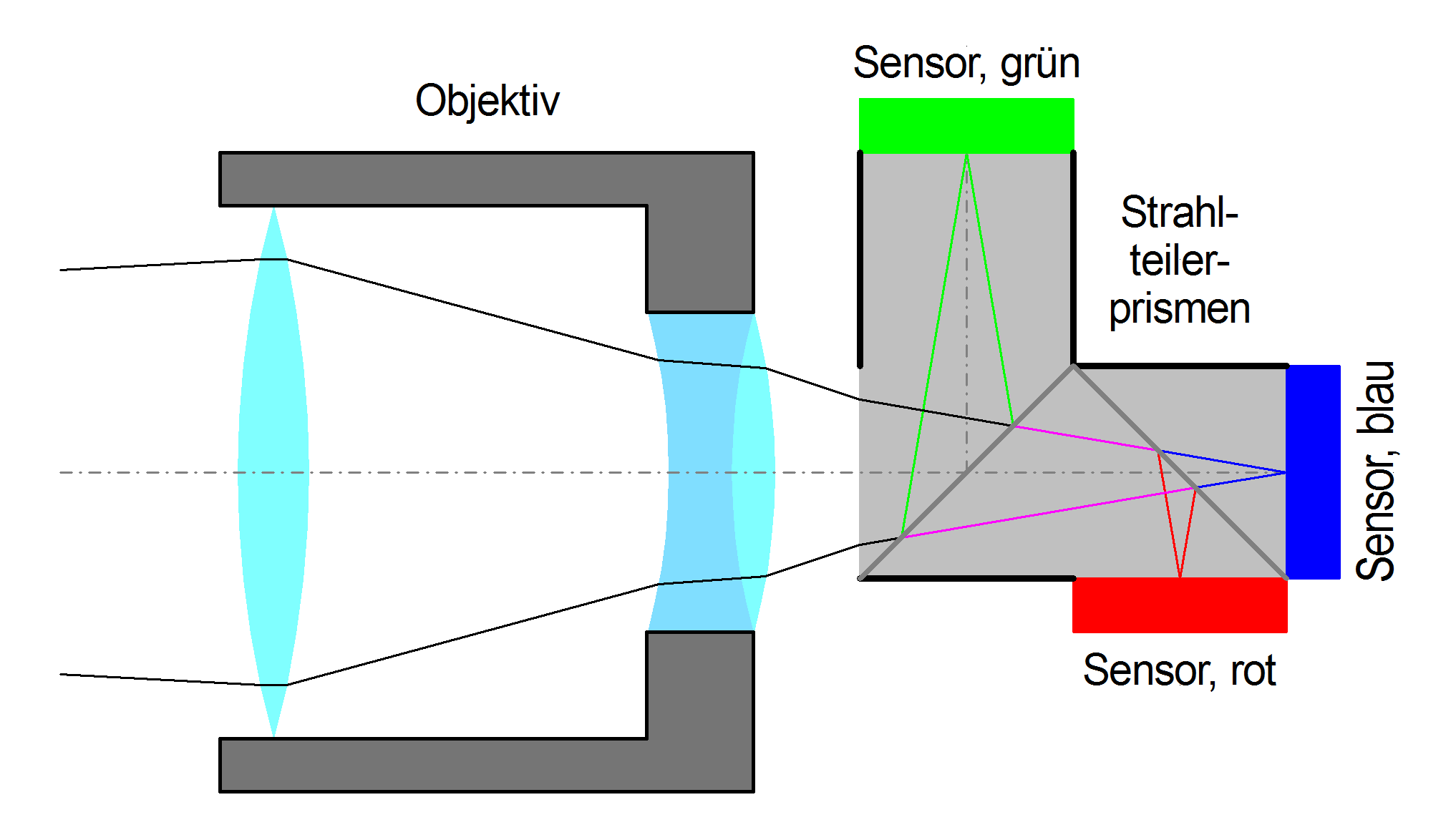 Principle of a 3-sensor system